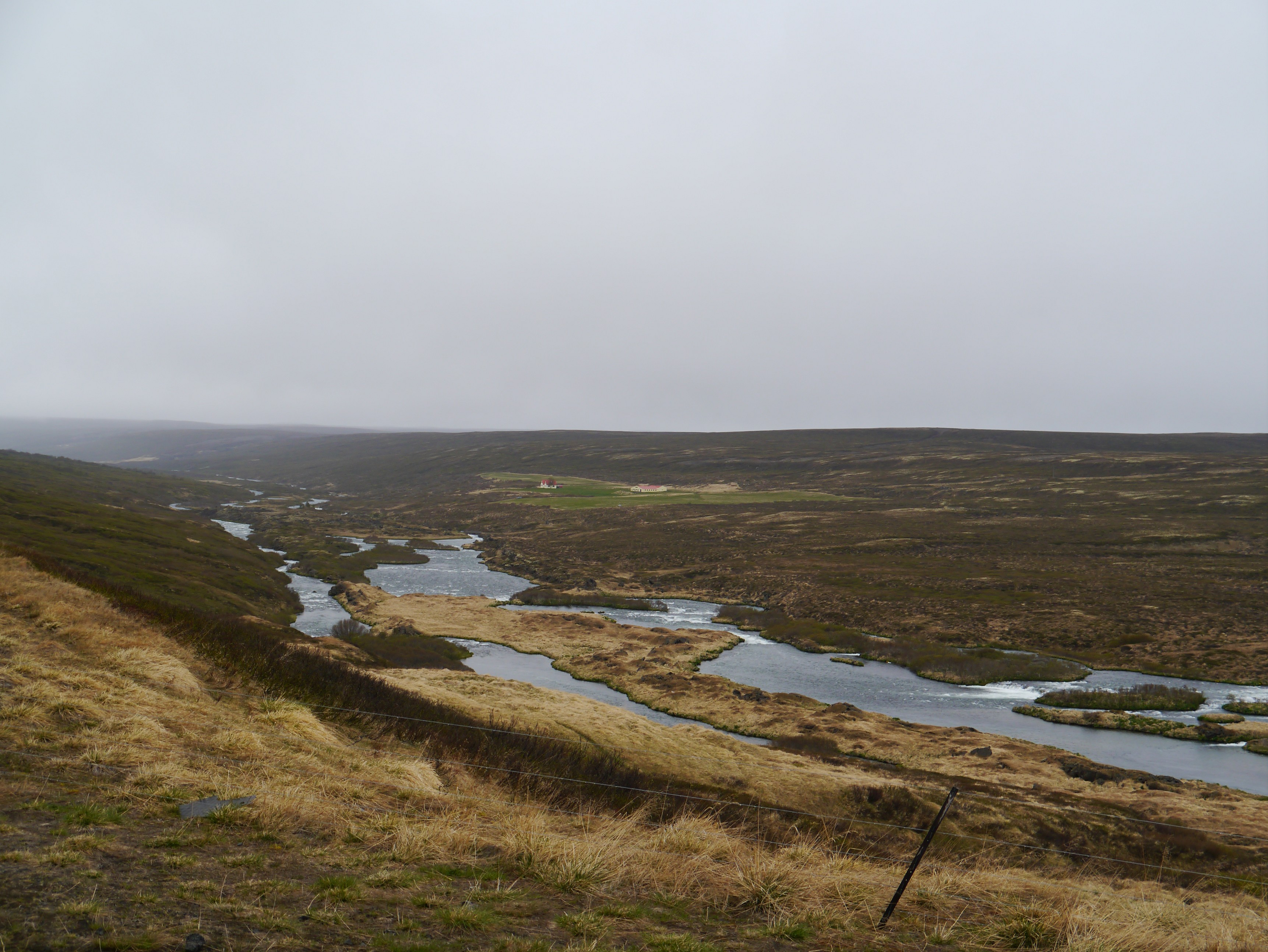 the ring road in northeastern Iceland